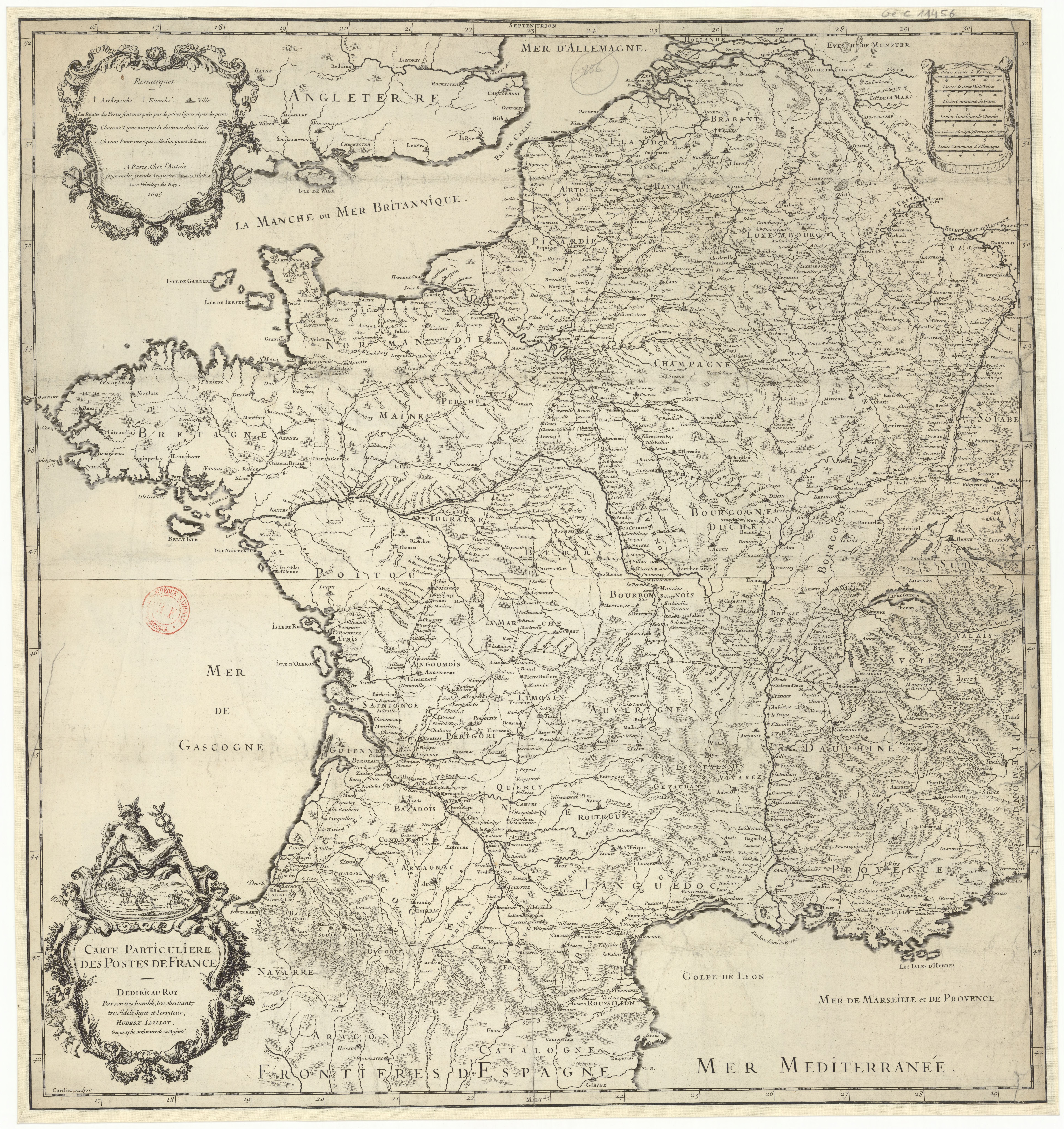 Jaillot’s map of Post roads in France (1695).